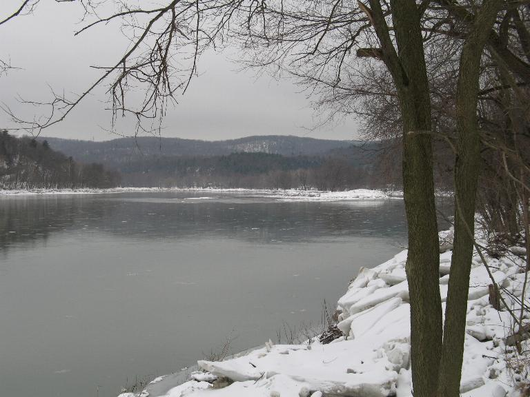 Man-made lake in Northeastern Pennsylvania at Lackawanna State Park.